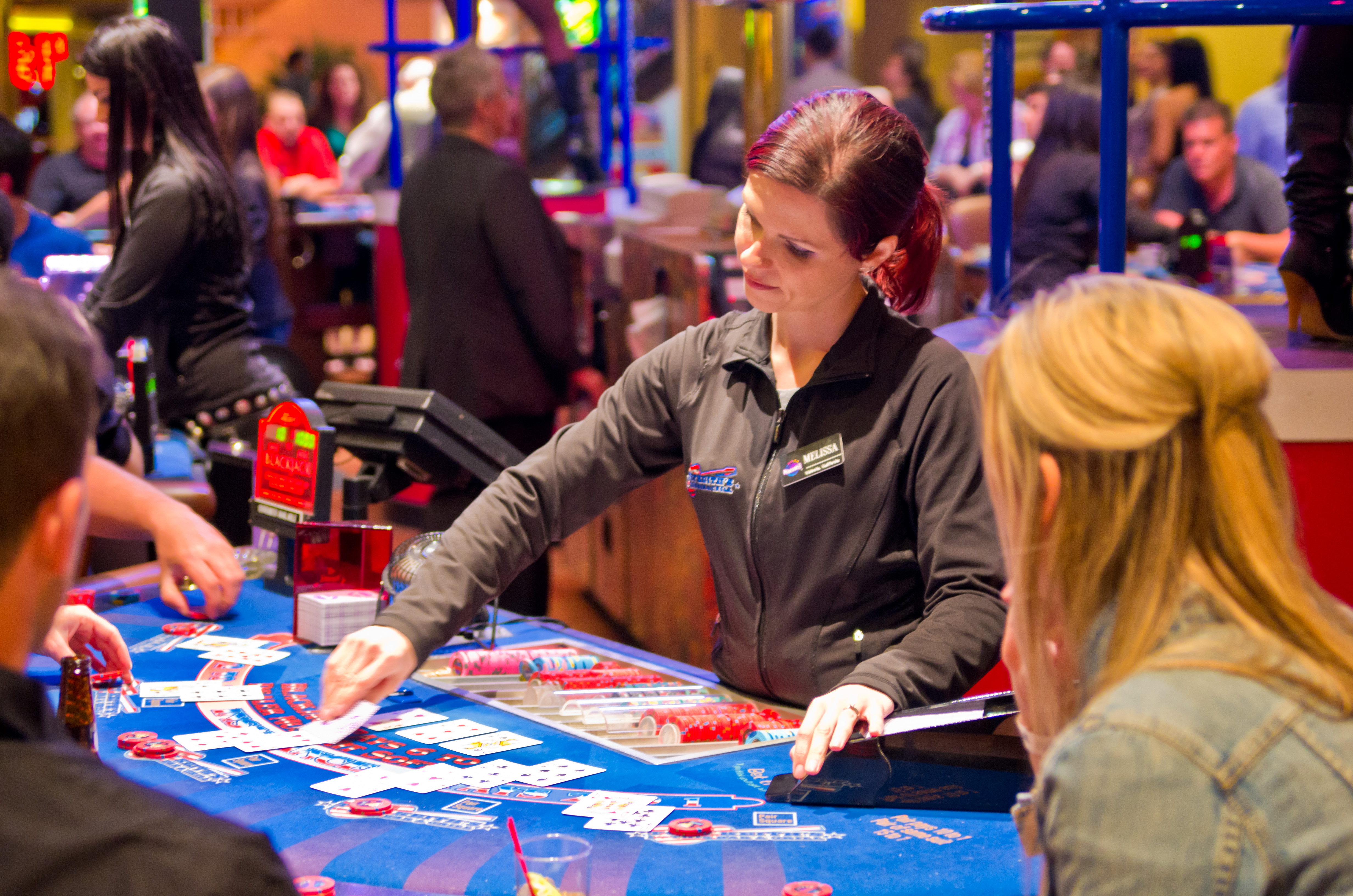 Harrah's hotel (Las Vegas)